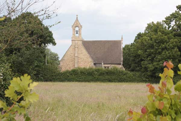 St Helen's Church, Folksworth, Cambridgeshire, England. Taken from the footpath to Morborne